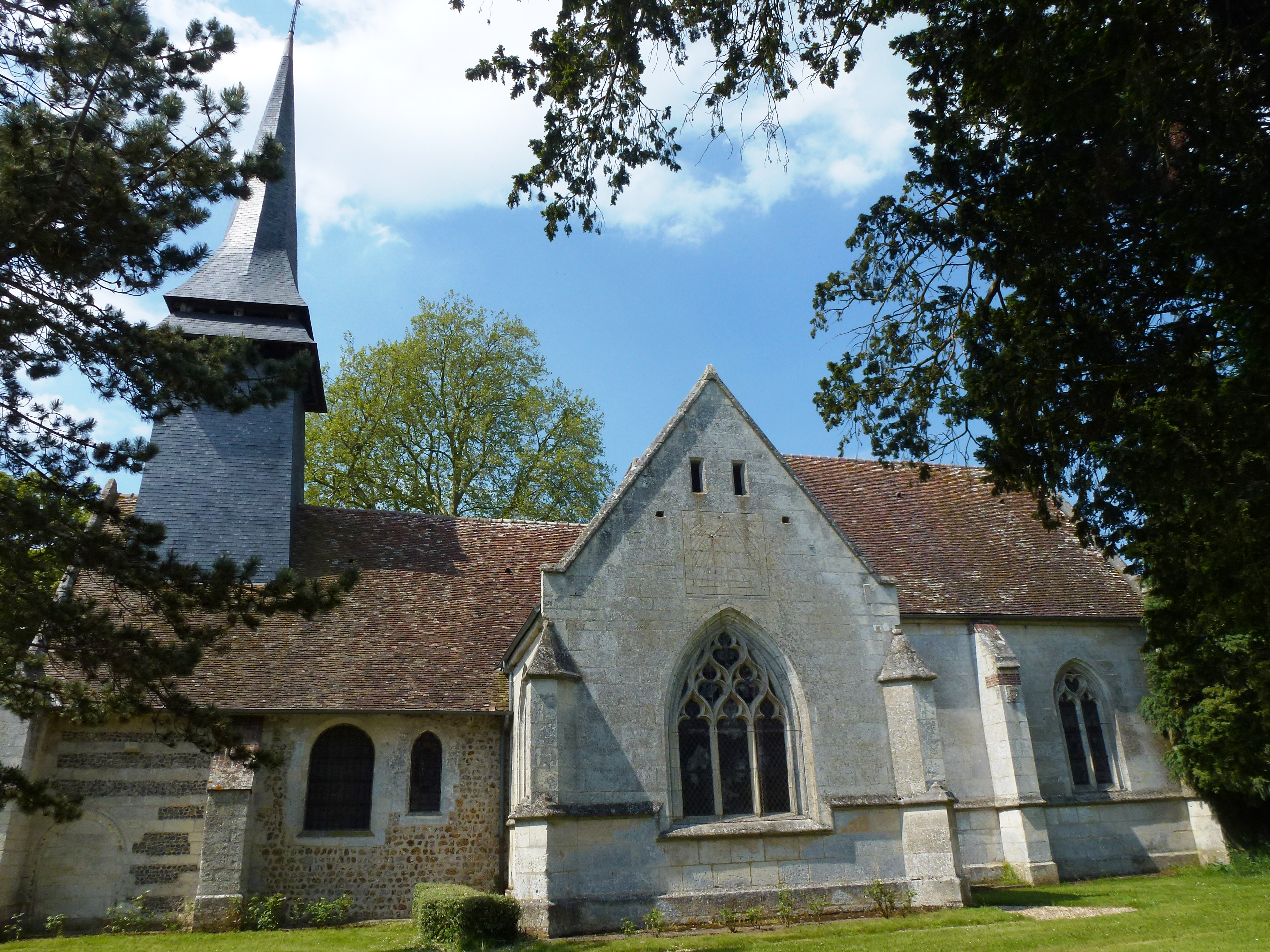 Le Tilleul-Othon (Eure, Fr) église Saint-Germain